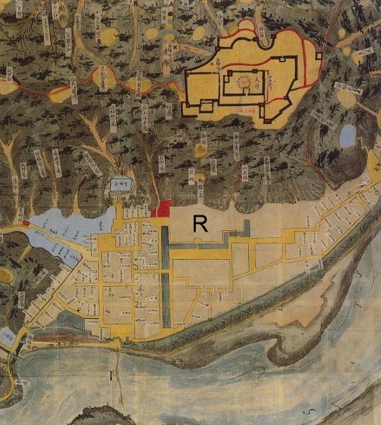 Map of old Iwakuni